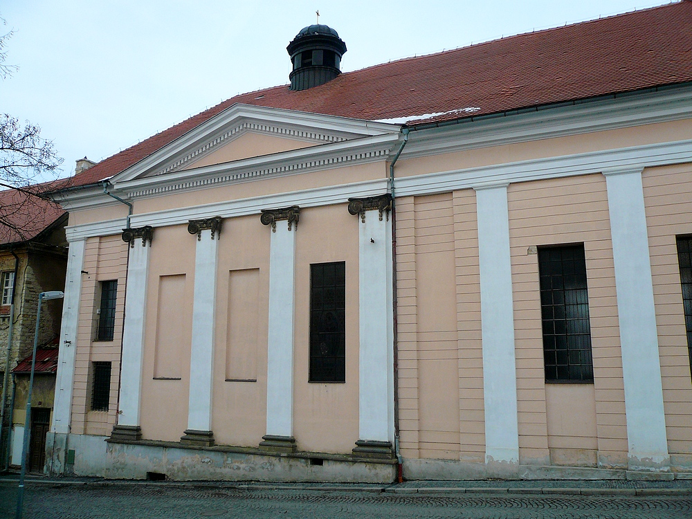 Zámek v Buštěhradu, západní fasáda